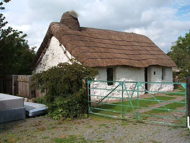 Cruck Cottage, Torthorwald. This thatched roof cottage has an unusual roof construction.